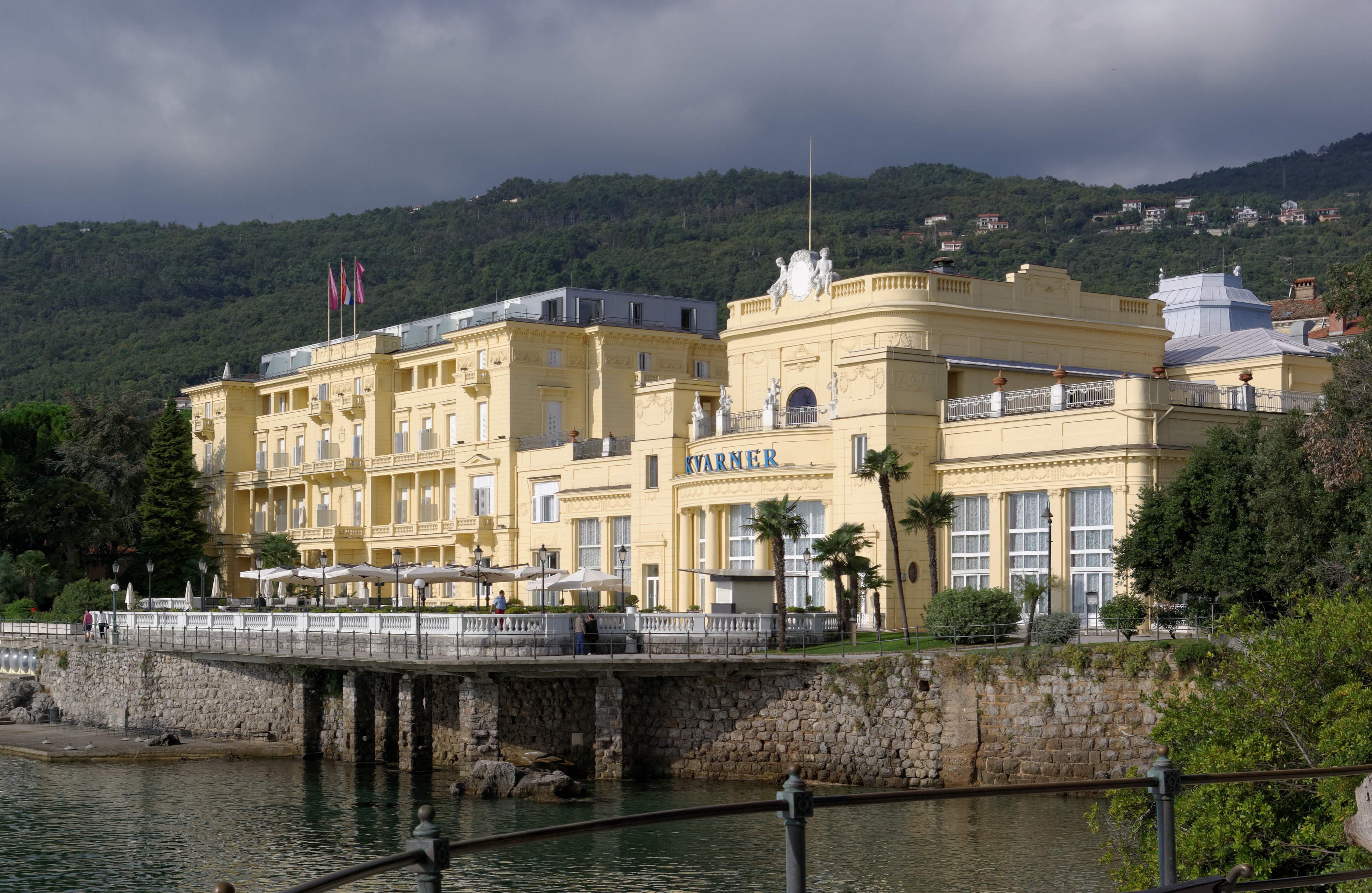 Croatia, Opatija, Hotel KvarnerHrvatski: Hrvatska, Opatija, Hotel Kvarner